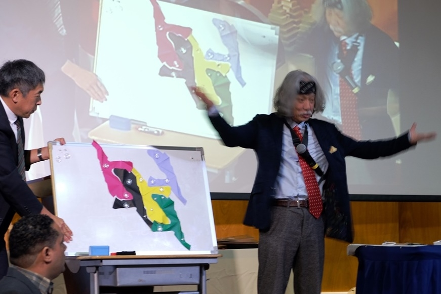 Jin Akiyama, Specially Appointed Vice President of Tokyo University of Science, gave a lecture at the National Institute of Education and Training for Teachers in La Romana Municipality, La Romana Province on October 8, 2018.